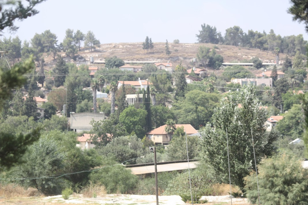 Mesilat Zion